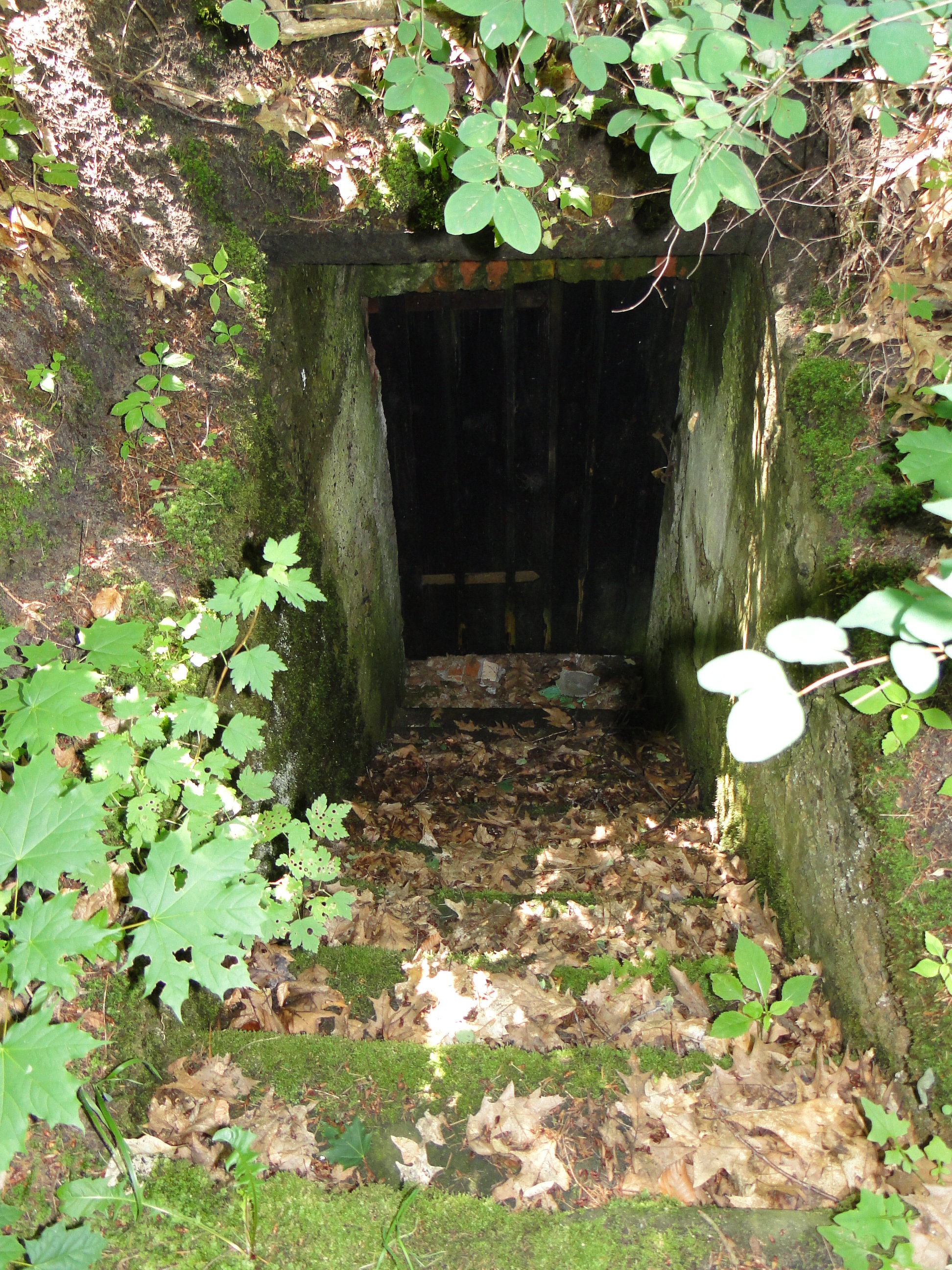 Icehouse in Neu Sammit, district Güstrow, Mecklenburg-Vorpommern, Germany